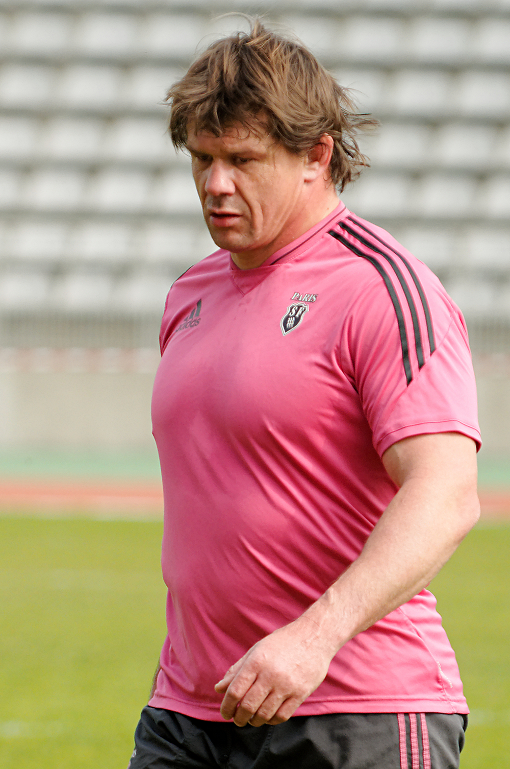 Olivier Milloud during the Stade Français training session held at Stade Charléty, Paris on 3 April 2012.